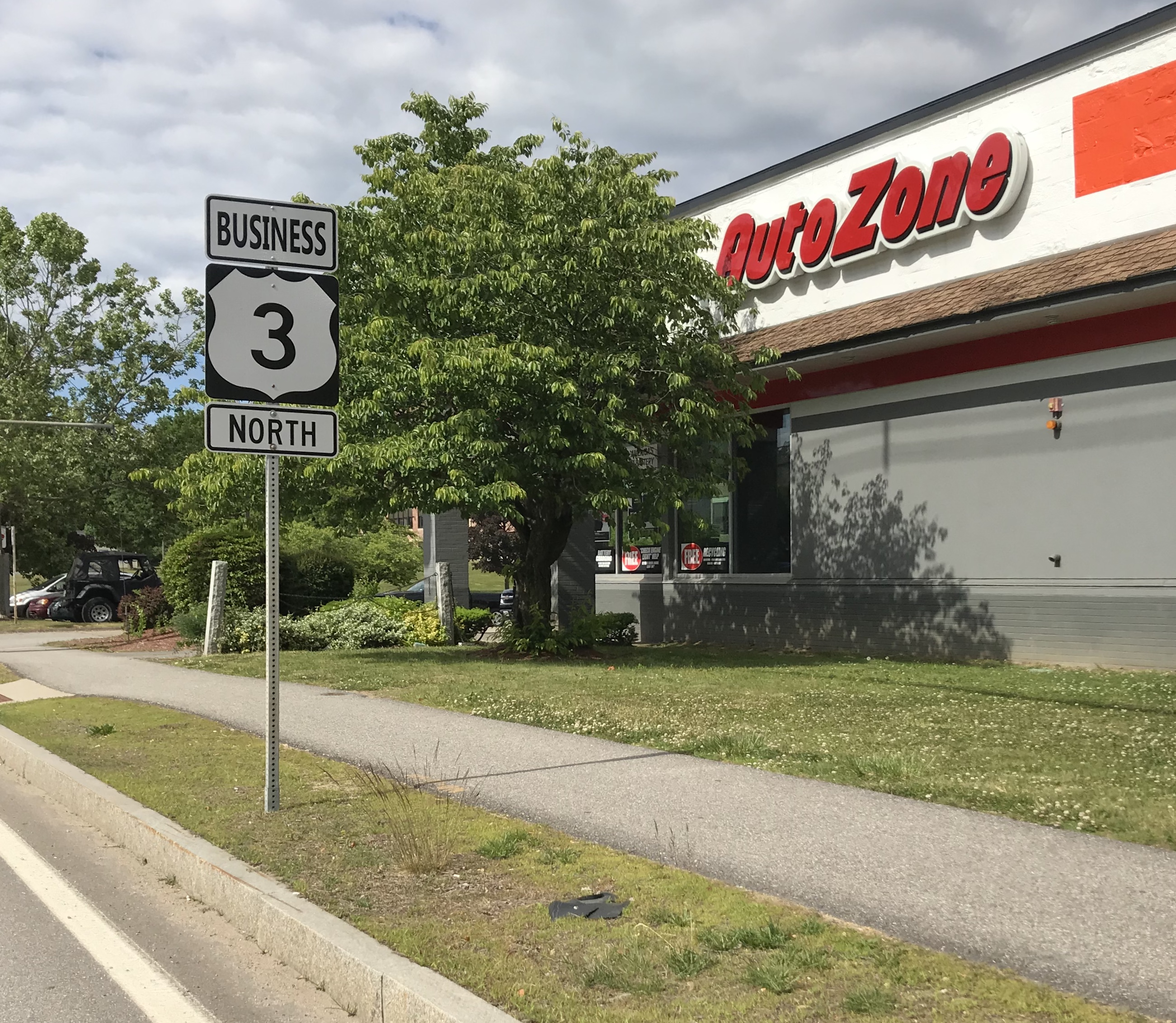 City of Laconia campaigned to have pre-ByPass US Route 3 alignment signed as Business US Route 3.